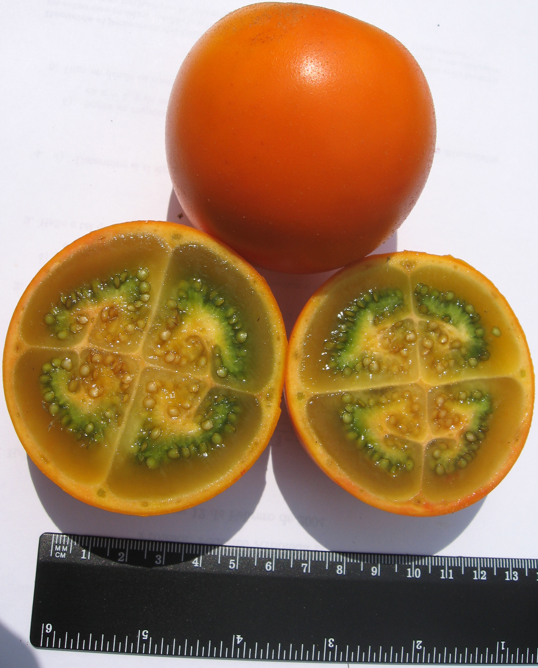 Two lulos, one of them cut in half.